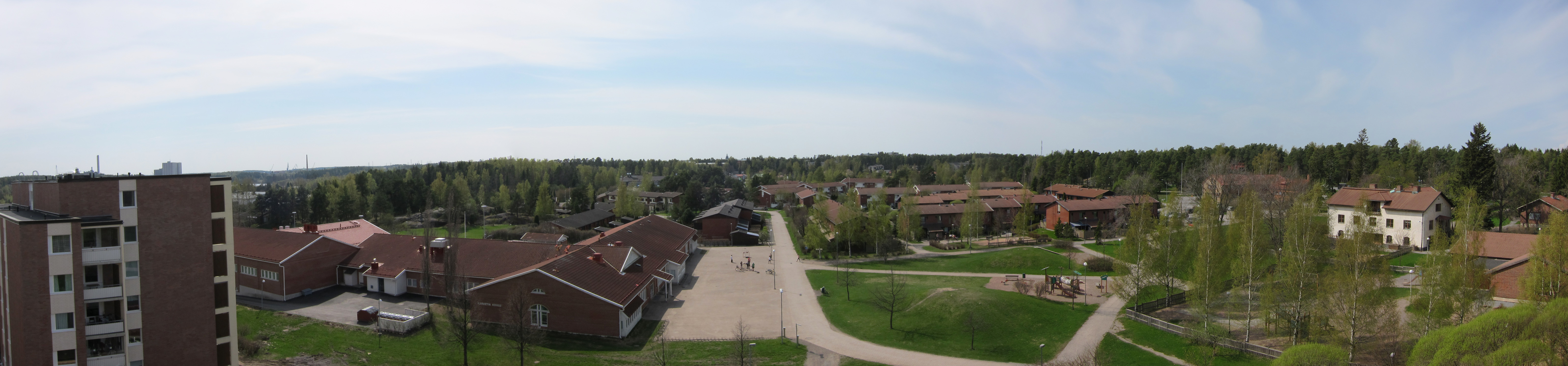 District of Karvetti, in the city of Naantali, Finland. This image was created with Hugin